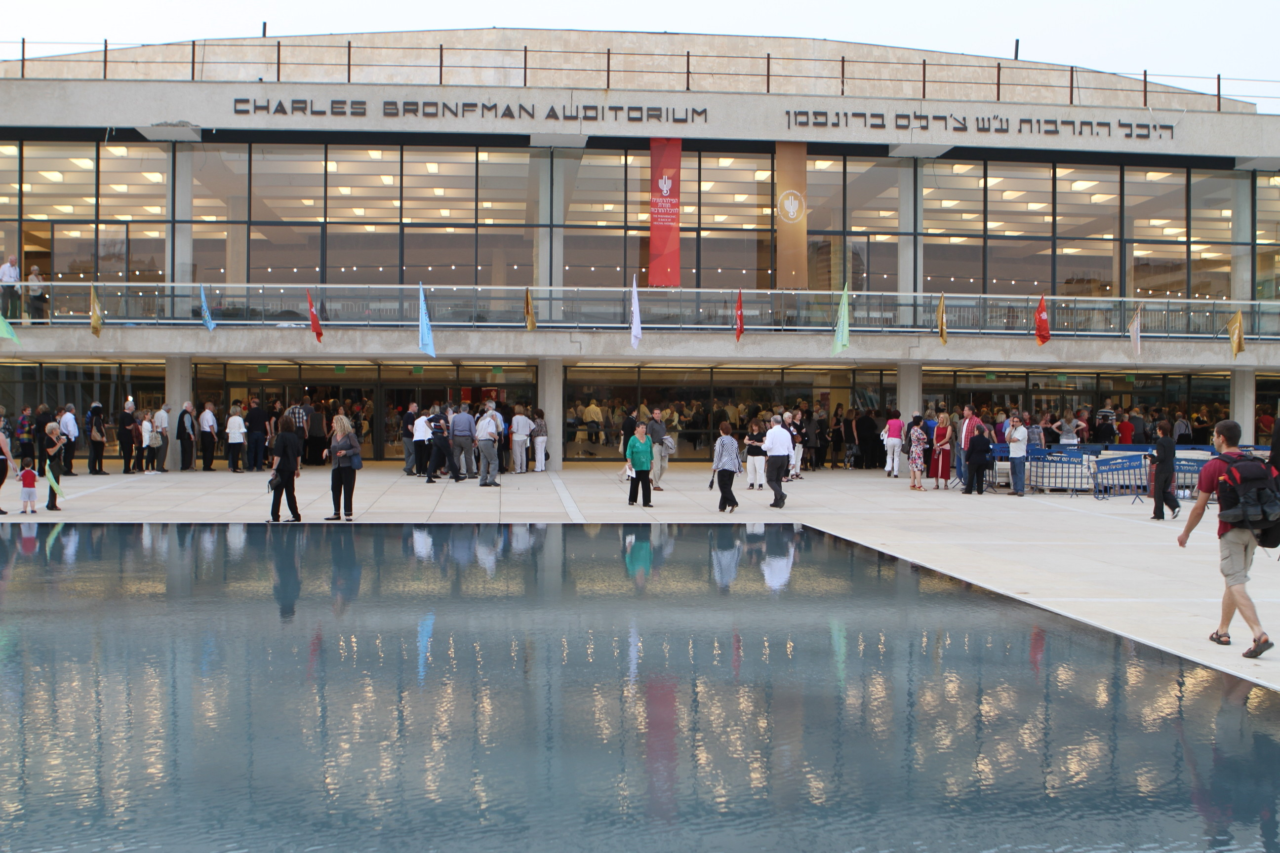 Charles Bronfman Auditorium - Reopening of Tel Aviv Concert House